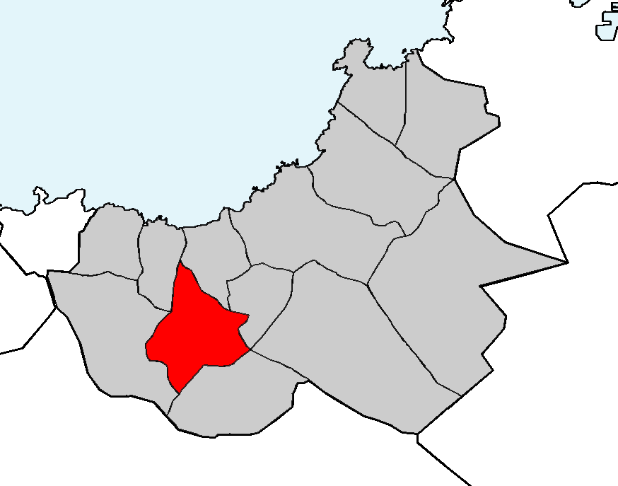 Location of the parish of Armentón in the municipality of Arteixo (Galicia, Spain)